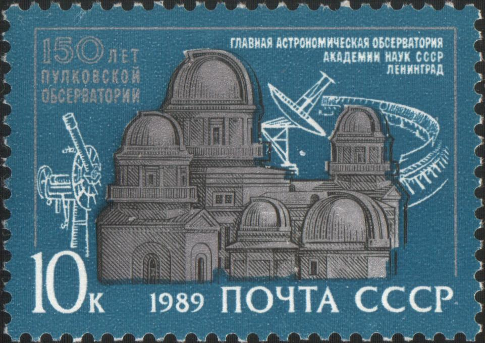 A USSR stamp